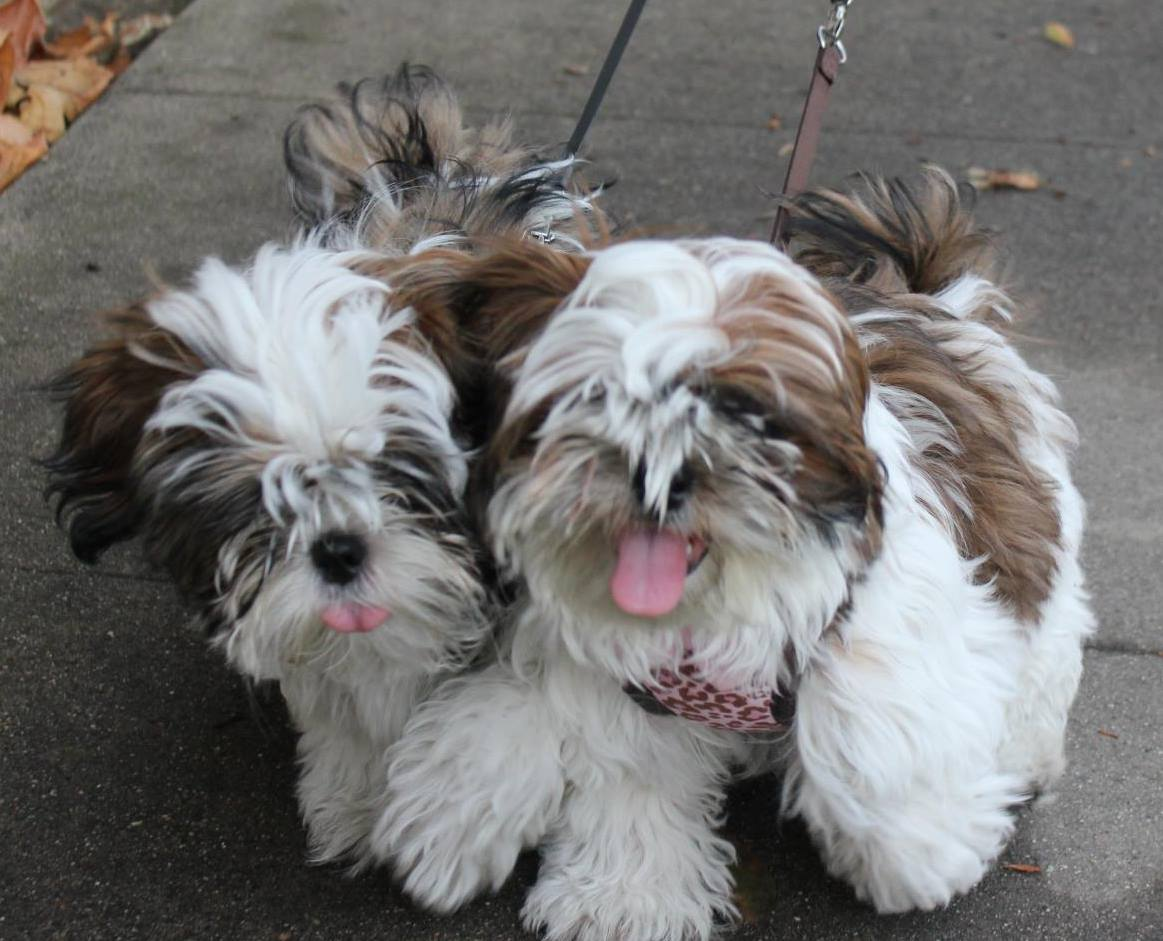 Sparty and Bella are two red and white haired shih tzu littermates living in Los Angeles, CA.